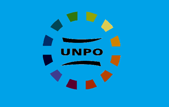 Flag of the Unrepresented Nations and Peoples Organisation (UNPO)